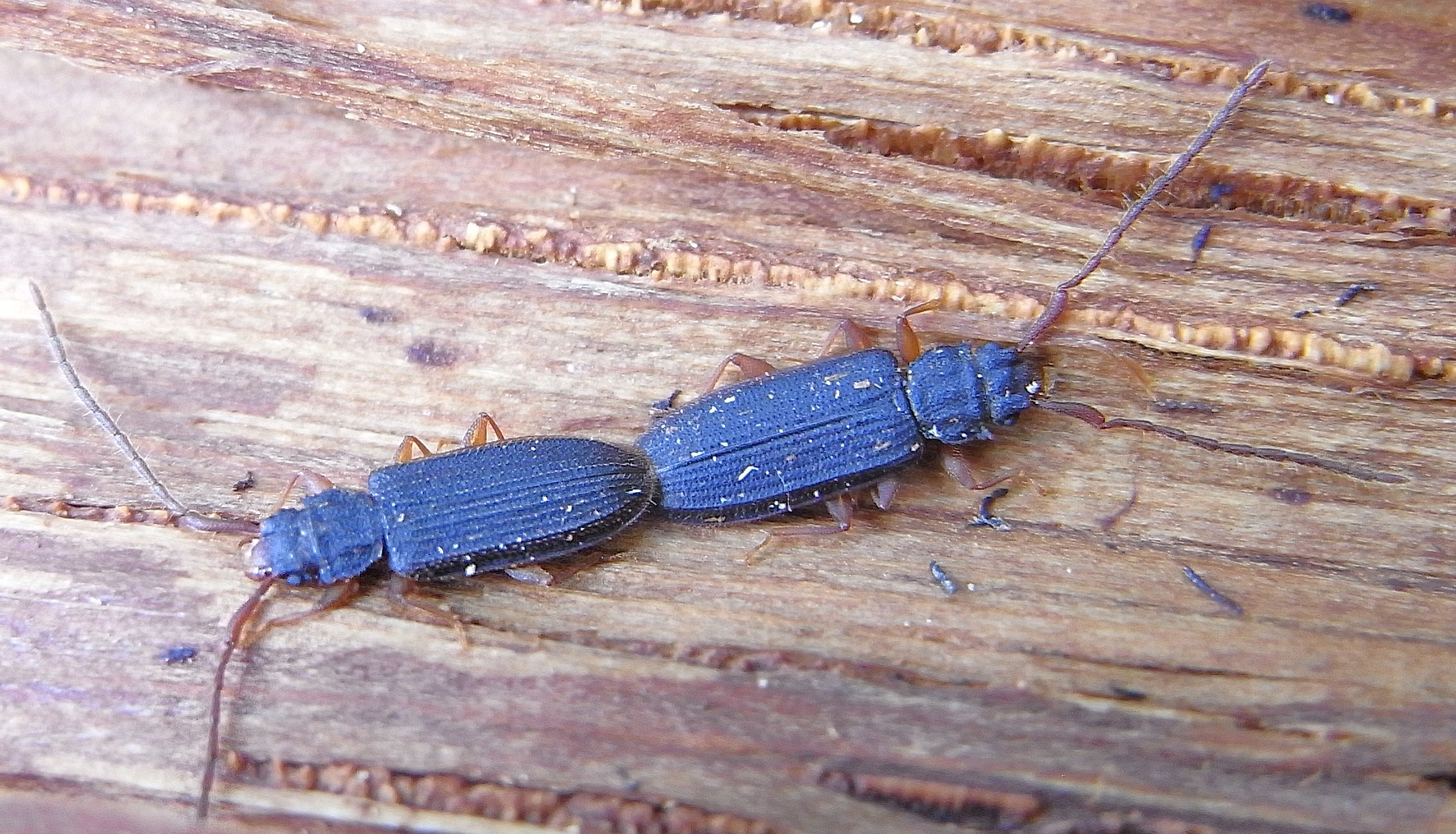 Uleiota planata from Hungary, near Lenti, at 2010-05-07 Ricoh R8